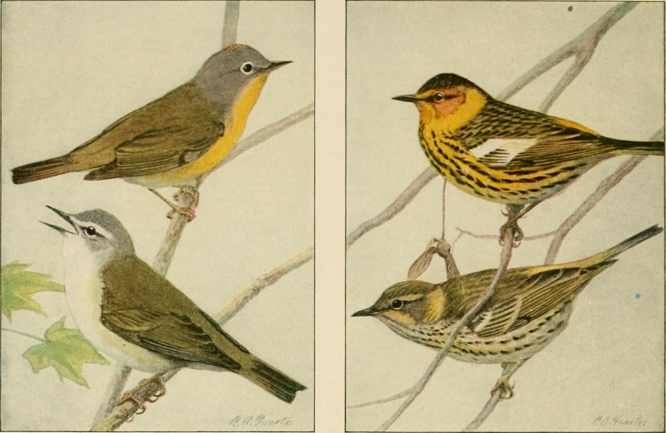 Title: The book of birds, common birds of town and country and American game birds Year: 1918 (1910s) Authors: National Geographic Society (U.S.) Henshaw, Henry W. (Henry Wetherbee), 1850-1930 Fuertes, Louis Agassiz, 1874-1927 Kennard, F. H., (Frederic Hedge), 1865- Cooke, Wells Woodbridge, 1858-1916 Shiras, George, 1859-1942 Subjects: Birds Publisher: Washington, D. C. : National Geographic Society Text Appearing Before Image: m\feet. So far as known, the Nashville alwaysnests on the ground. Its preference for theground as a nesting site is the more remark-able, since the bird rarely or never hunts there,but prefers to seek its insect food among thefoliage, often of the tallest elms and chestnutsand other giants of the forest. The Calaveras warbler (Icnni: i^ra ruhri-capilhi (lulturalis) is a form closely allied tothe Nashville, but contined chiefly to tlie Pacificcoast, extending eastward to eastern Oregonand northern Idaho. Fisher is quoted iiy Chapman as saying: The Calaveras warbkr is acharacteristic denizen of the chaparral and isfound on both slopes of the Sierra Nevadasabout as far south as Mount Whitney. It tre-fpients the belts of the yell(»w, sugar, and Jeffryjiines. and ranges uj) into tlie red-tir zone.During the height of the nesting season, whilethe female is assiduously hunting among thedense cover of bushes, the male is often sing-ing in a pine or lir, far above mundane house-hold cares. 87 Text Appearing After Image: '